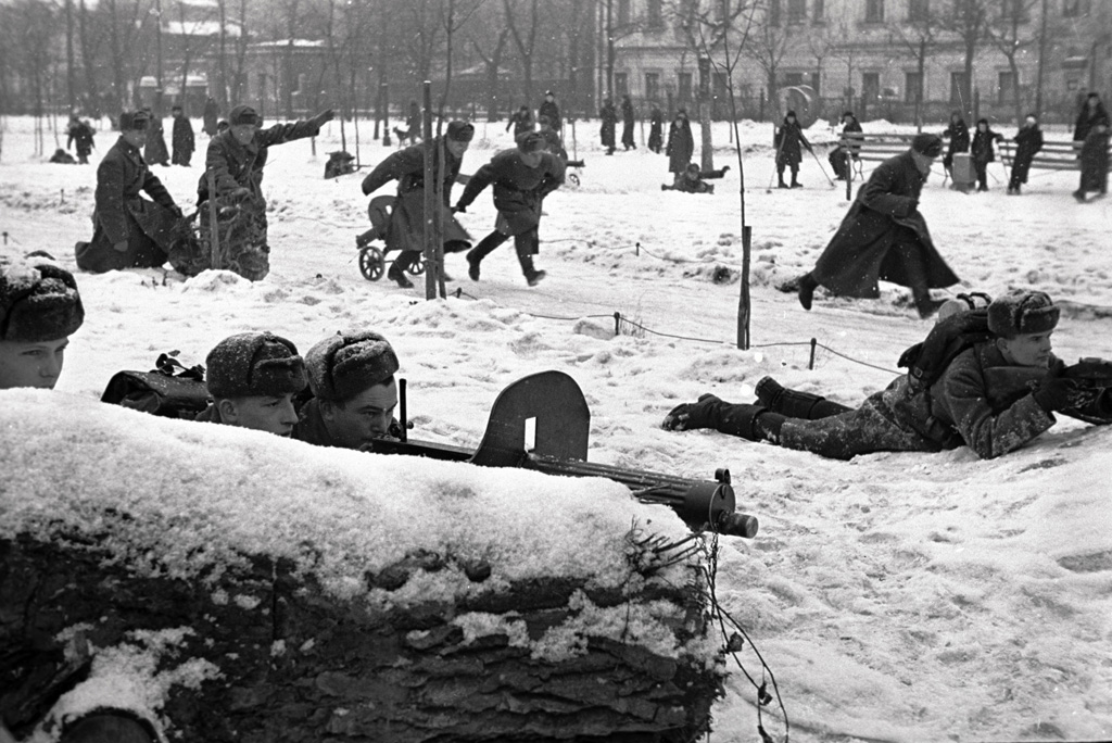 “Military exercises in Moscow”. Military exercises on Chistoprudny boulevard in Moscow.